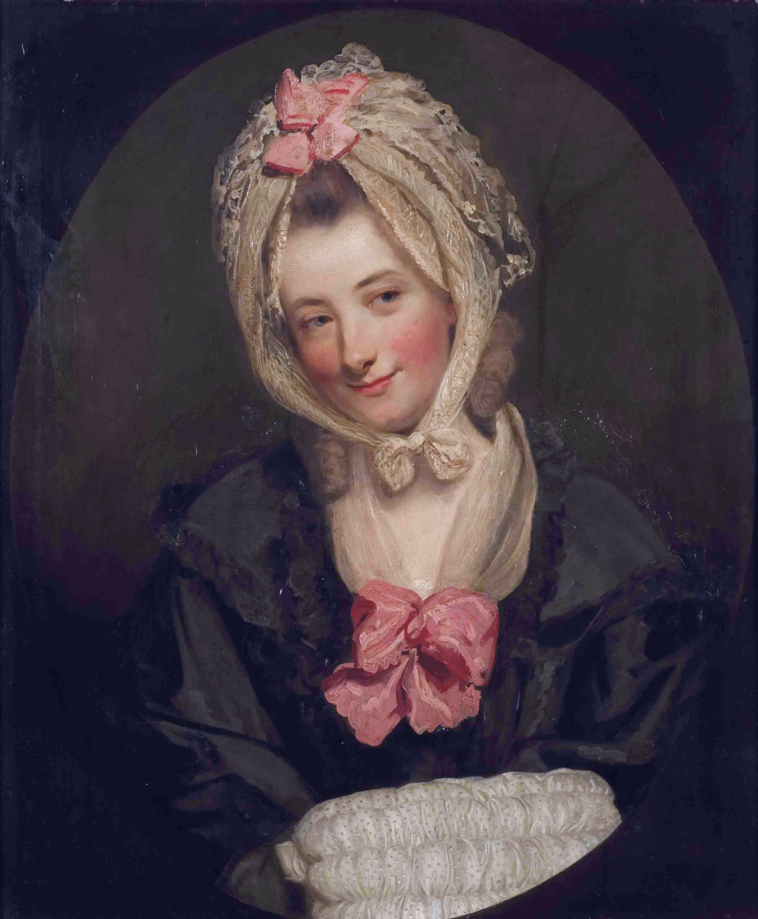 German-born singer, was trained by Venanzio Rauzzini.